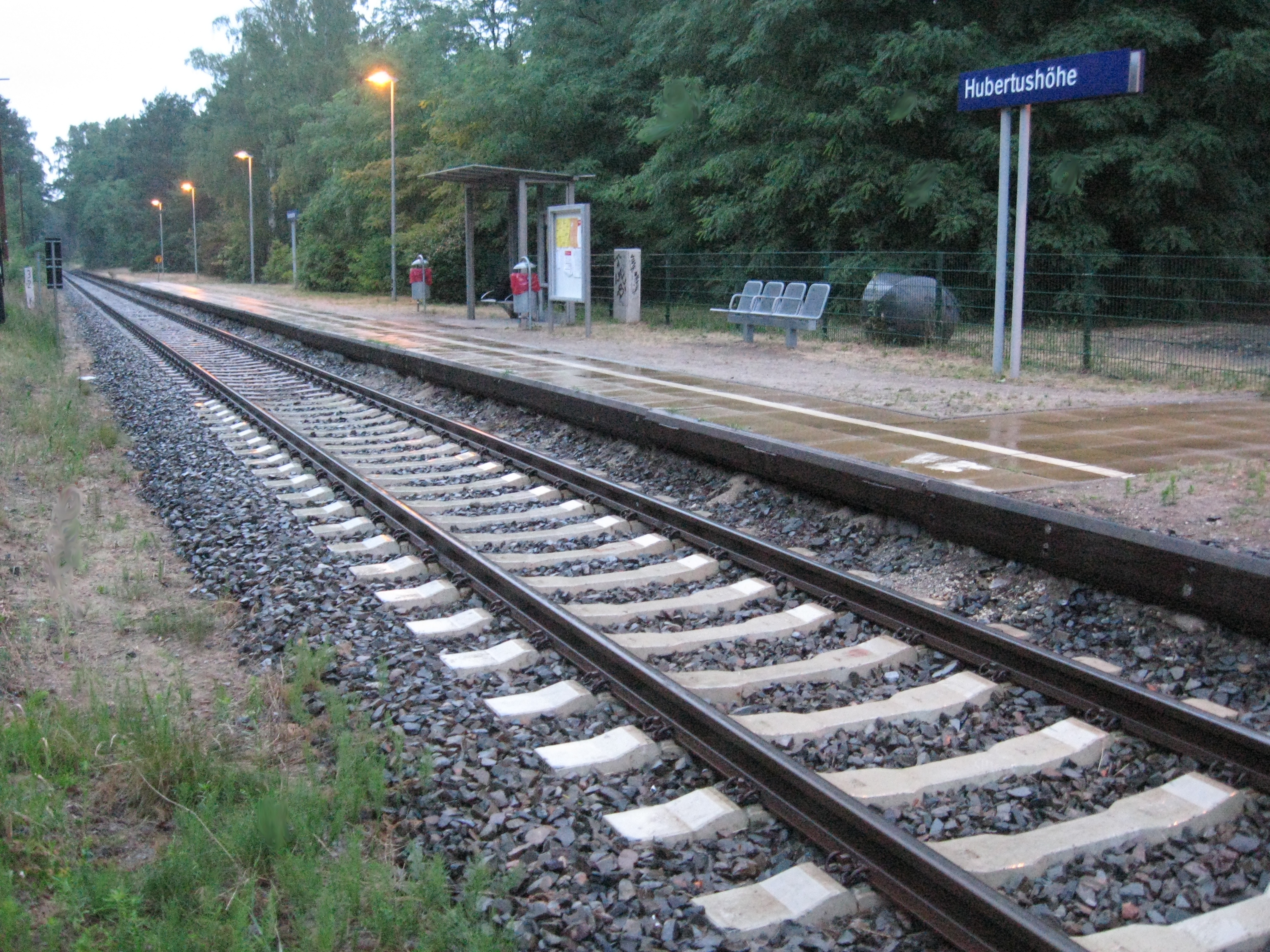 train stop Hubertushöhe at line Königs Wusterhausen — Grunow in Brandenburg, Germany, view to north